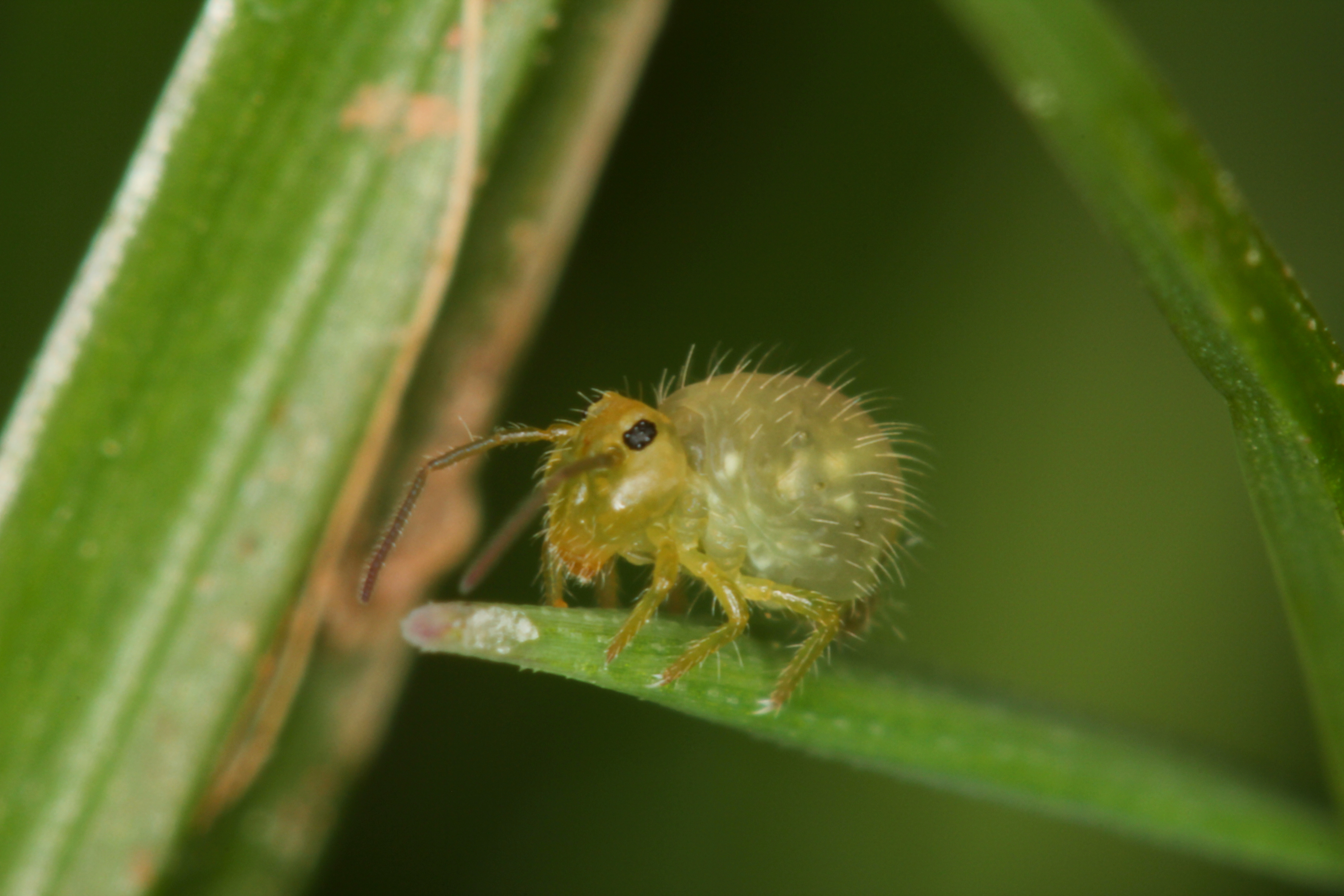 Sminthurus viridis from England.